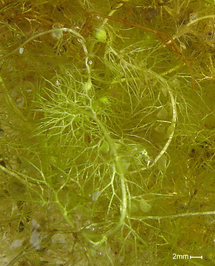 A typical clump of aquatic bladderwort from the UK, (Utricularia vulgaris). Stolons, transparent bladder traps and branching shoots are visible.